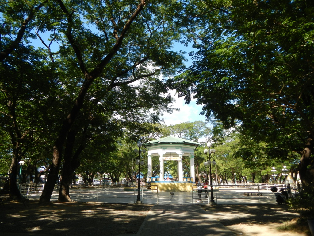 Freedom Park (Cabanatuan City) designed by prominent American architect William E. Parsons who also designed government buildings in Manila, Cebu and Laguna during the American Colonial Period - in front of the Old Provincial Capitol in Barangays General Luna (Poblacion) and Padre Burgos (Poblacion), Cabanatuan City, Nueva Ecija.